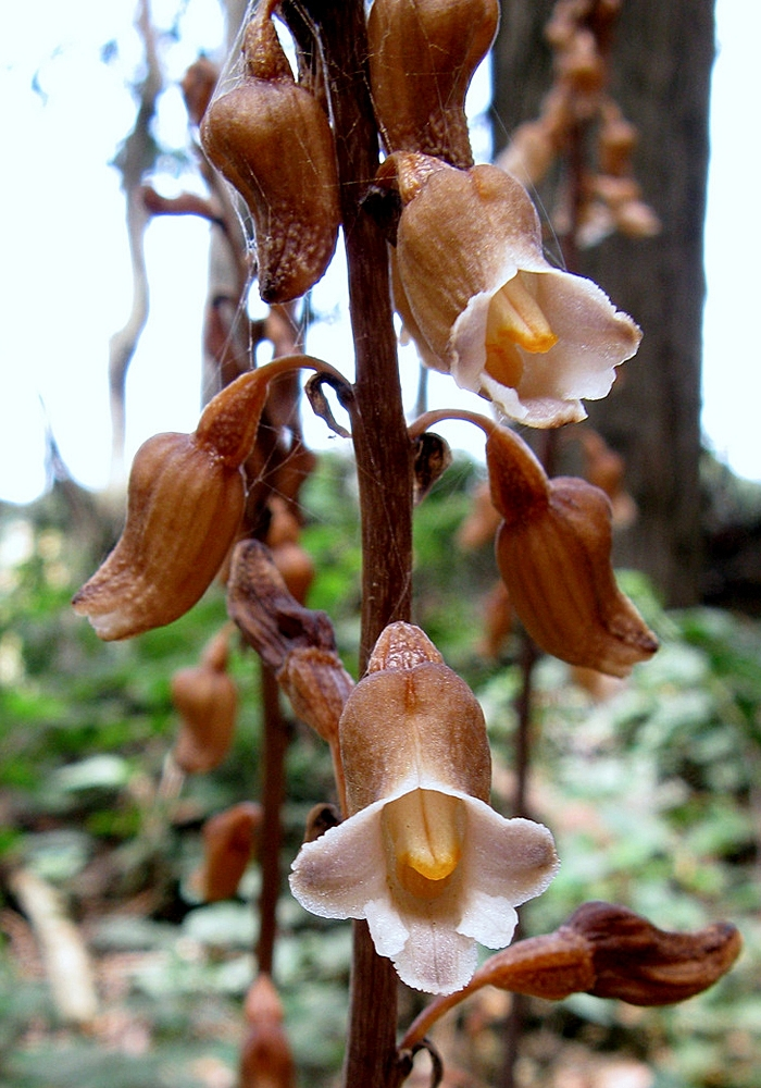 Gastrodia procera (Tall Potato-orchid) . Leafless plant on single stalk to 90 cm. Flowers Late Spring - Autumn